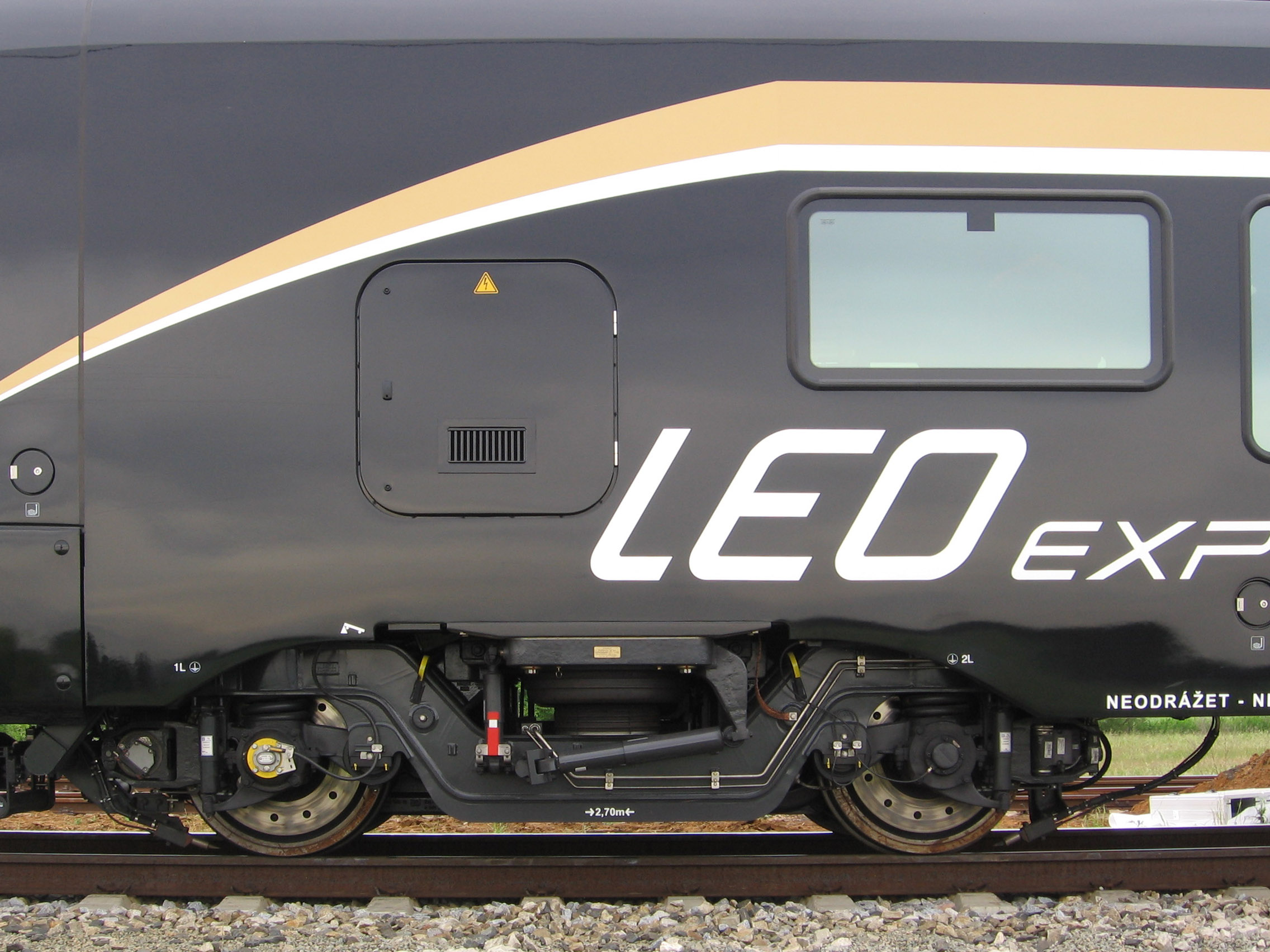 LE 480.001 driving bogie